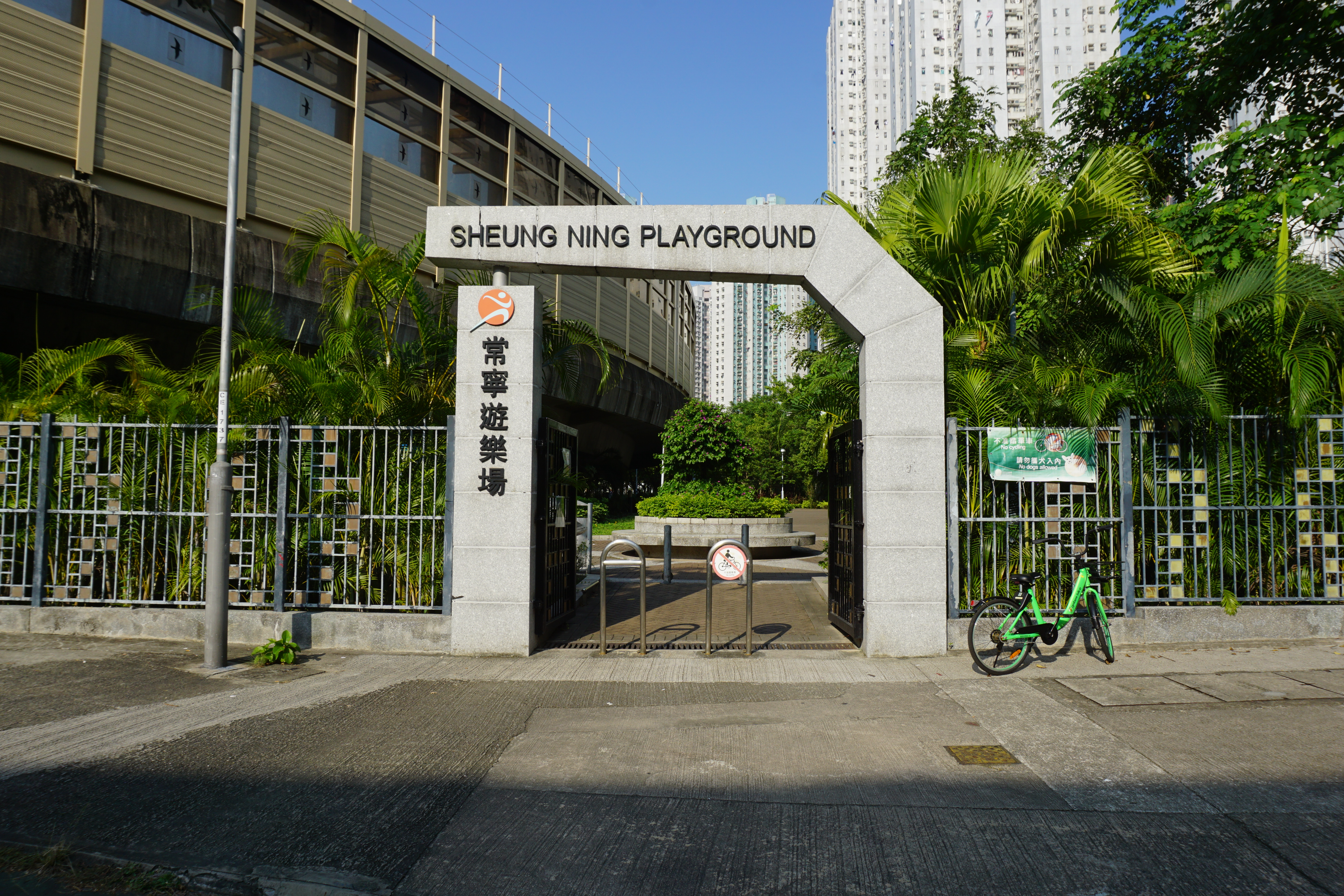 Sheung Ning Playground in Hang Hau, Hong Kong.